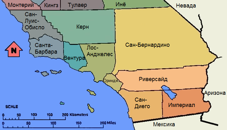 Map of Southern California